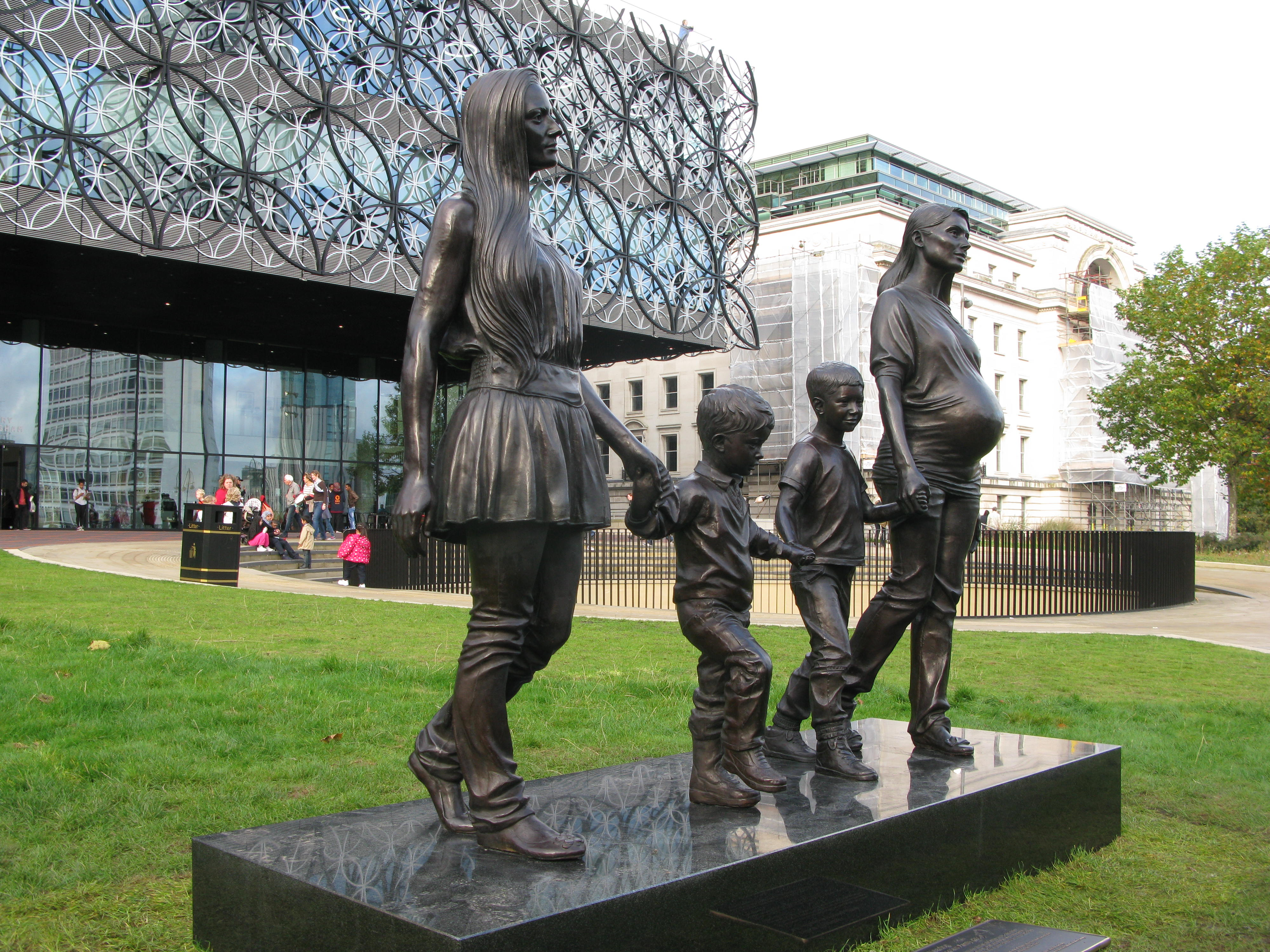 Unveiled on 30 Oct 2014, this bronze sculpture by Gillain Wearing challenges what is meant by "family"